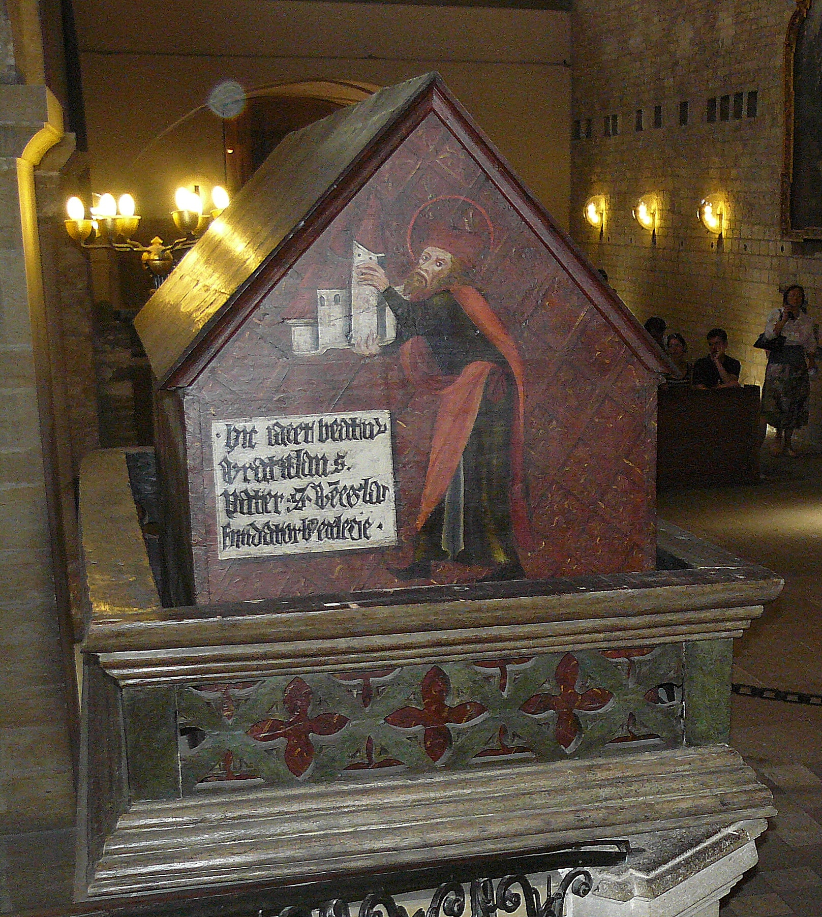 The tomb of Vratislaus I of Bohemia in the St. George's Basilica, Prague Castle, Czech Republic